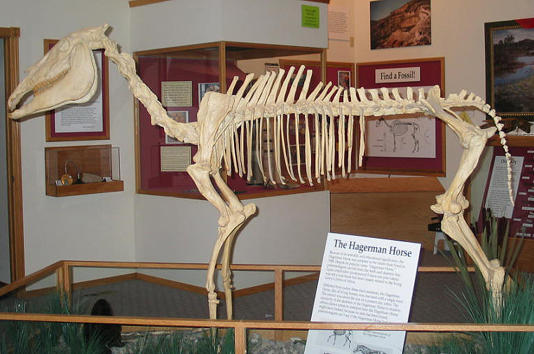 Hagerman Horse - Equus simplicidens (formerly called Plesippus shoshonensis) - mounted skeleton in the visitor center of Hagerman Fossil Beds National Monument, Idaho, USA